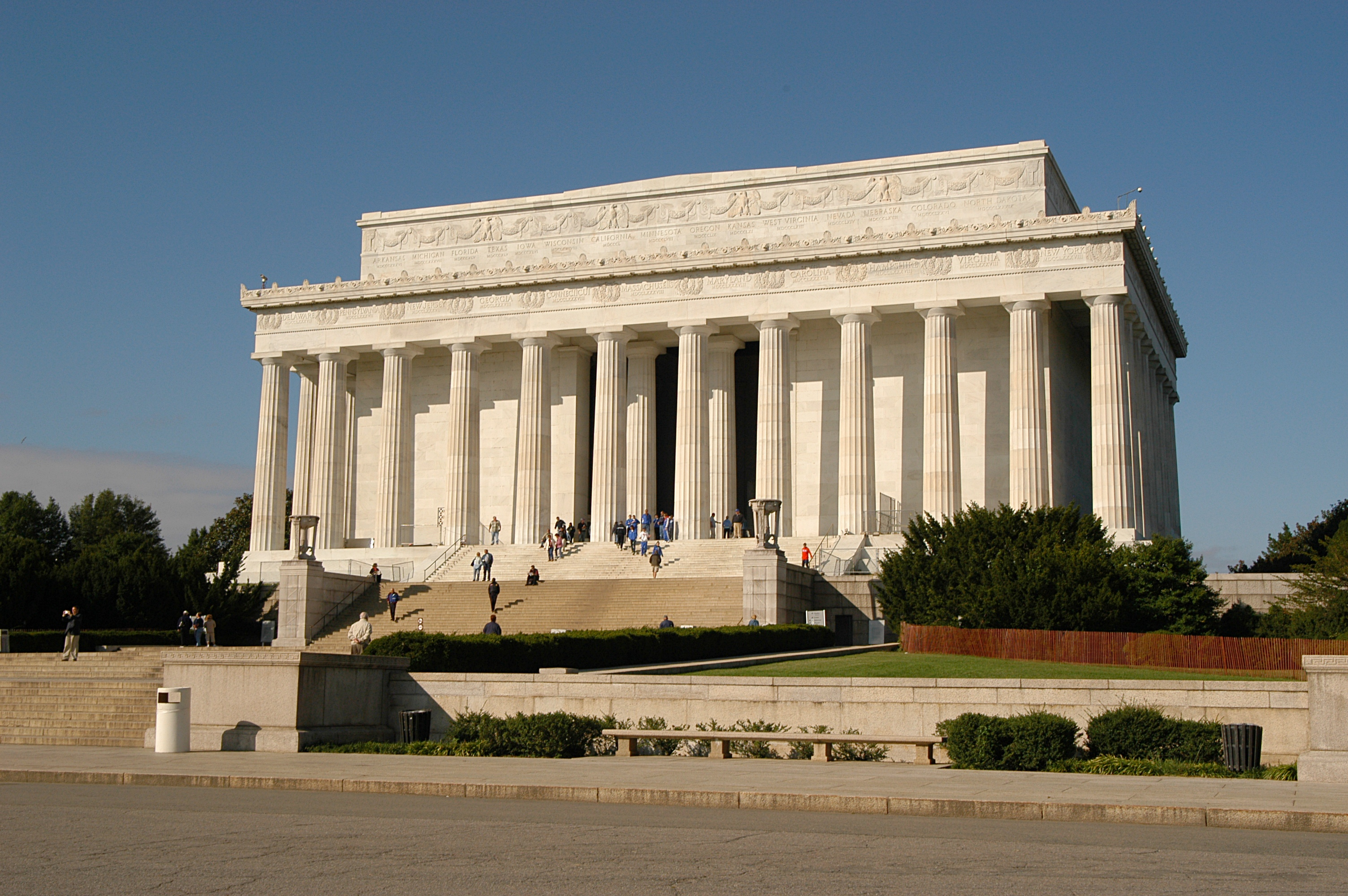 Lincoln Memorial, Washington, DC on October 11, 2004.